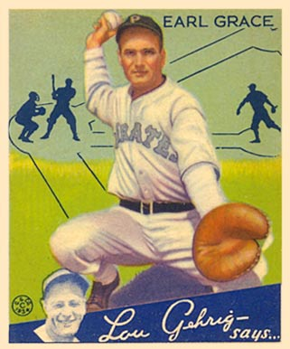 1934 Goudey baseball card of Earl Grace of the Pittsburgh Pirates #58. PD-not-renewed.